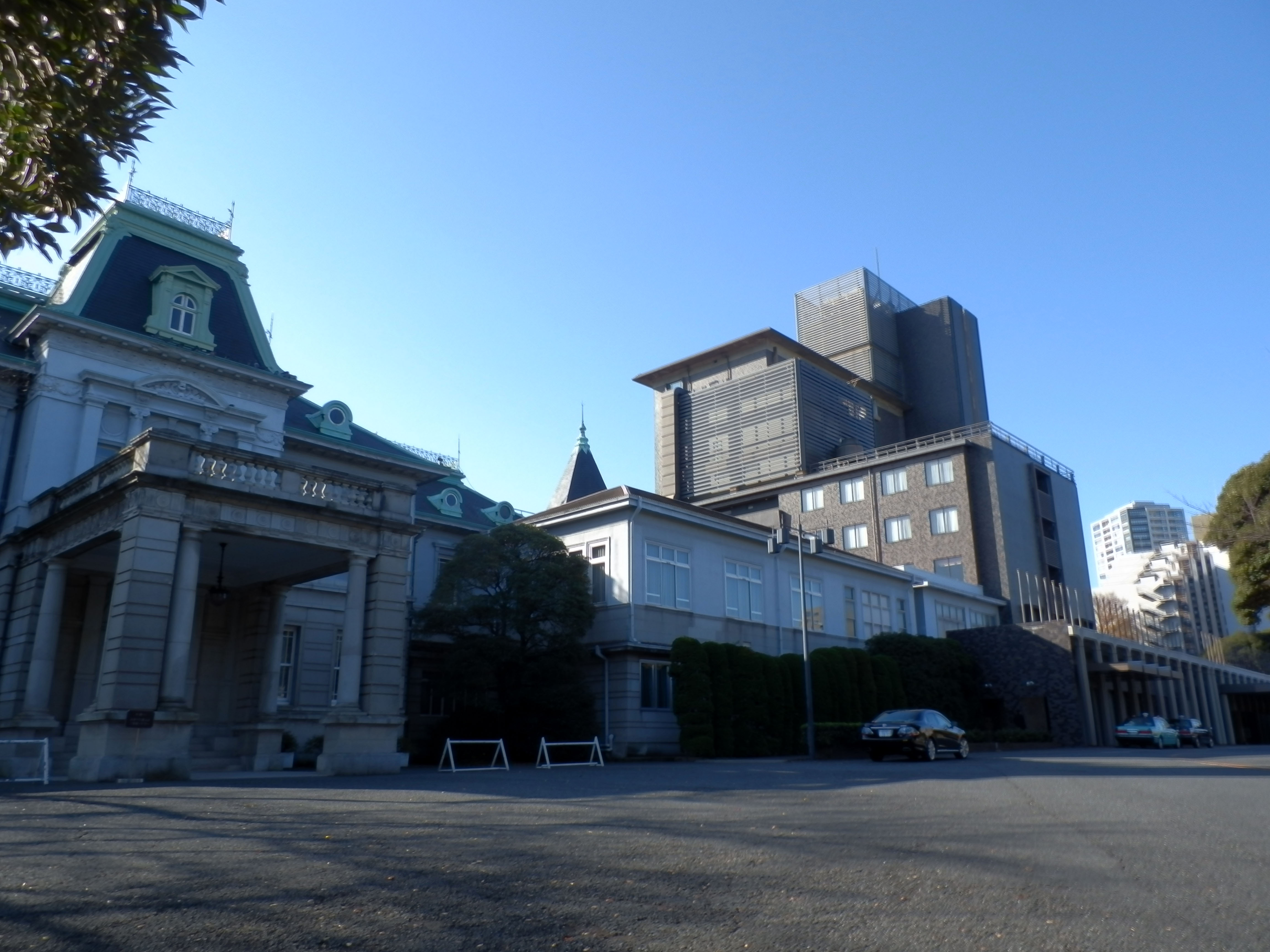 Grand Prince Hotel Takanawa (Tokyo, Japan)